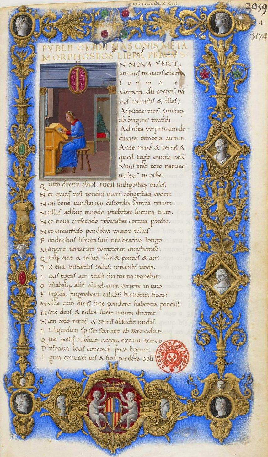 An illustration from a manuscript in Latin belonging made for Joan d'Aragó.